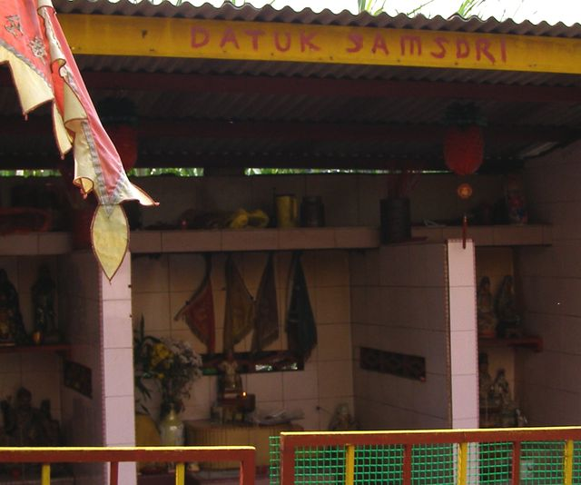 Photo of Datuk Samsuri - NaTukKong007.jpg